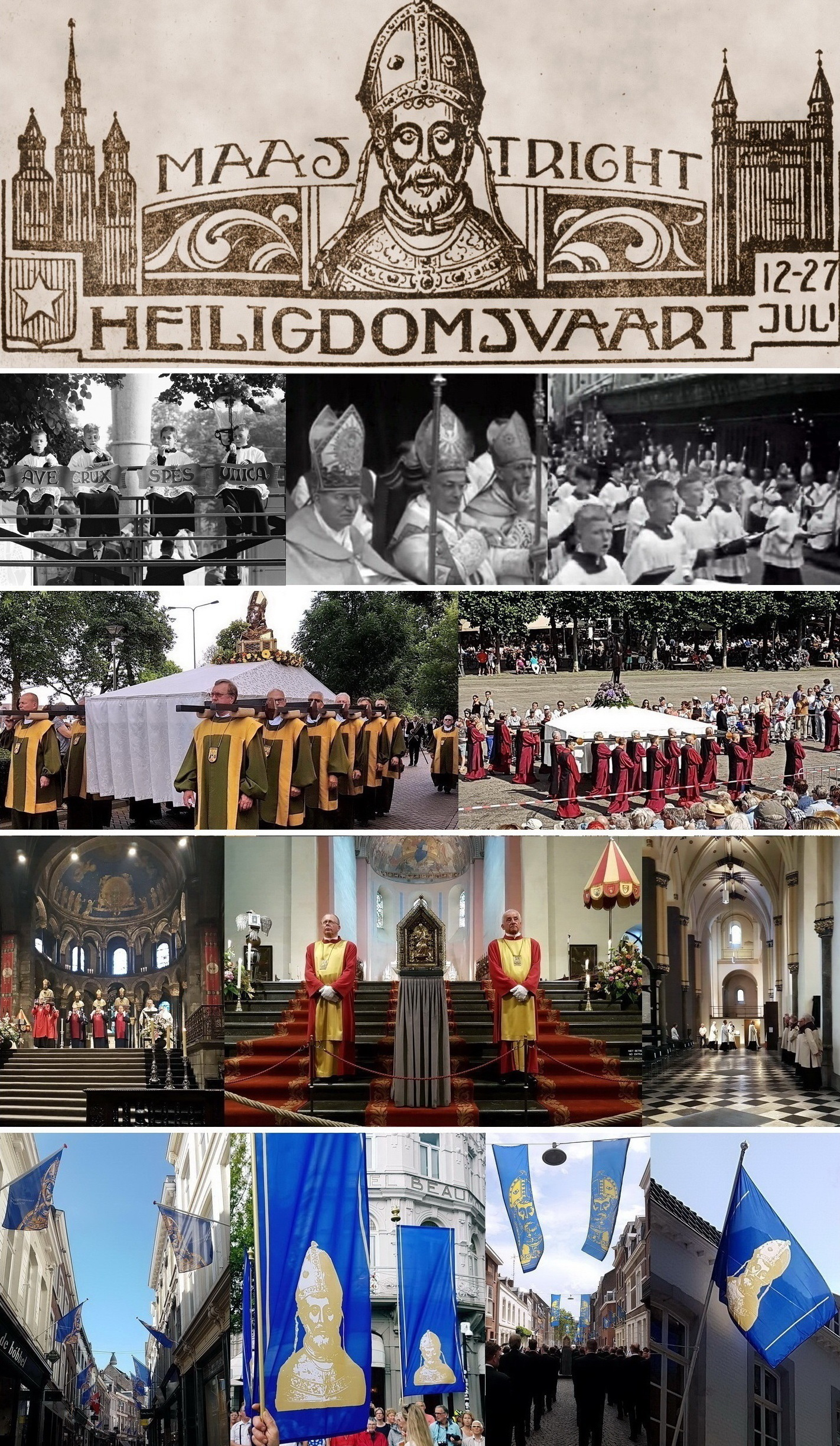 Montage of photos and film stills of the so-called Heiligdomsvaart, a seven-yearly pilgrimage in Maastricht, Netherlands. All images have been uploaded to Wikimedia Commons with a free license: File:Limburger Koerier vol 085 no 103 Heiligdomsvaart Maastricht 12-27 Juli.jpg File:Heiligdomsvaart in Maastricht Vier misdienaartjes, Bestanddeelnr 914-1098.jpg File:1955_Maastricht_Heiligdomsvaartprocessie,_Polygoonjournaalclip_08.jpg File:1955_Maastricht_Heiligdomsvaartprocessie,_Polygoonjournaalclip_07.jpg File:20180603 Maastricht Heiligdomsvaart 085.jpg File:20180603 Maastricht Heiligdomsvaart 199.jpg File:20180602 Maastricht Heiligdomsvaart, reliekentoning OLV-basiliek 13.jpg File:20180531_Maastricht_Heiligdomsvaart_24.jpg File:20180602 Maastricht Heiligdomsvaart, reliekentoning St-Servaasbasiliek 51.jpg File:20180531_Maastricht_Heiligdomsvaart_34.jpg File:20180527_Maastricht_Heiligdomsvaart_009.jpg File:20180527_Maastricht_Heiligdomsvaart_198.jpg File:20180531_Maastricht_Heiligdomsvaart_33.jpg